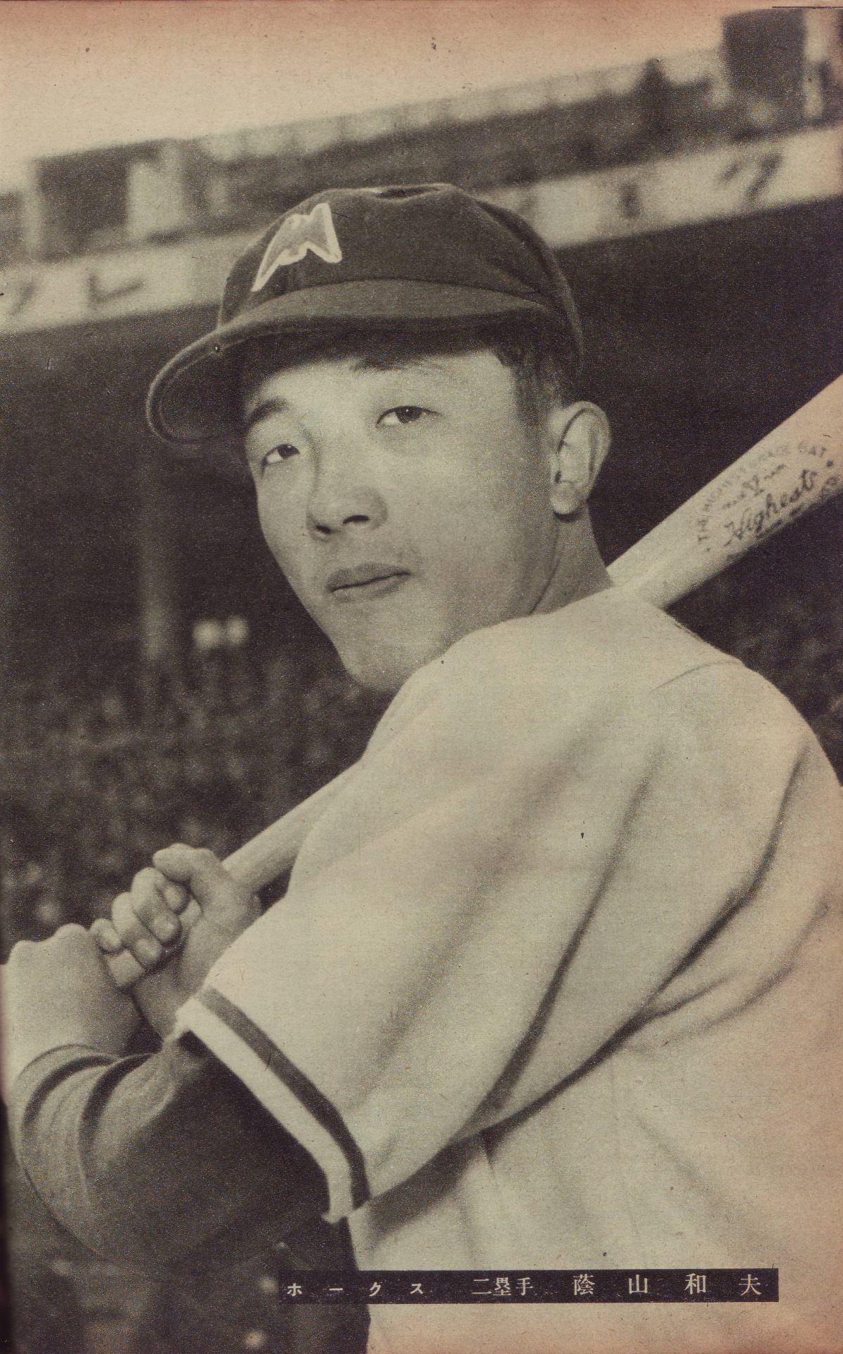 Kazuo Kageyama. taken in 1950.